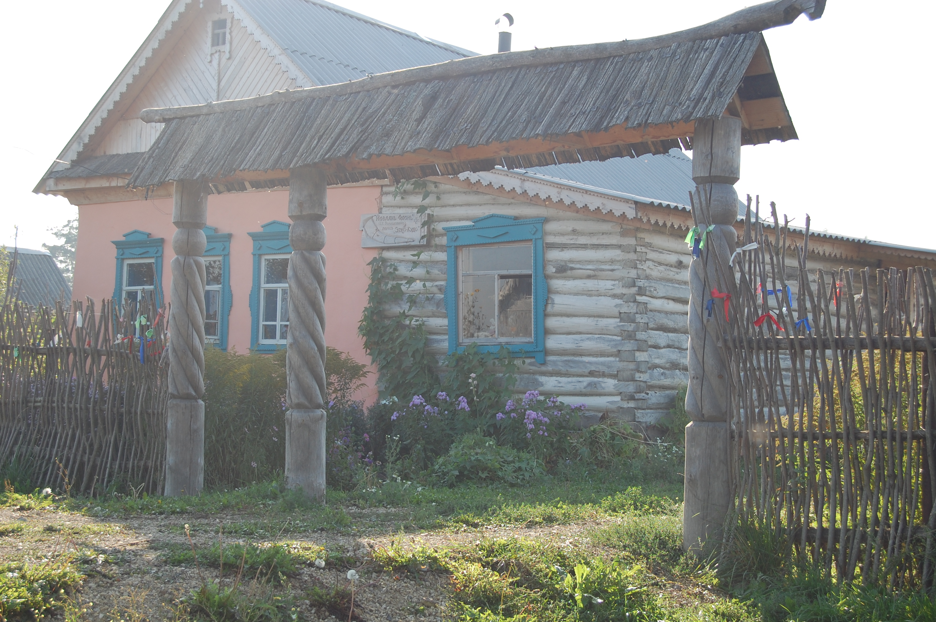 «Ethno-Kudo» named Yovlanj Olo (name Romashkina V.I.) Podlesnaya Tavla, Kochkurovsky district, Mordovia